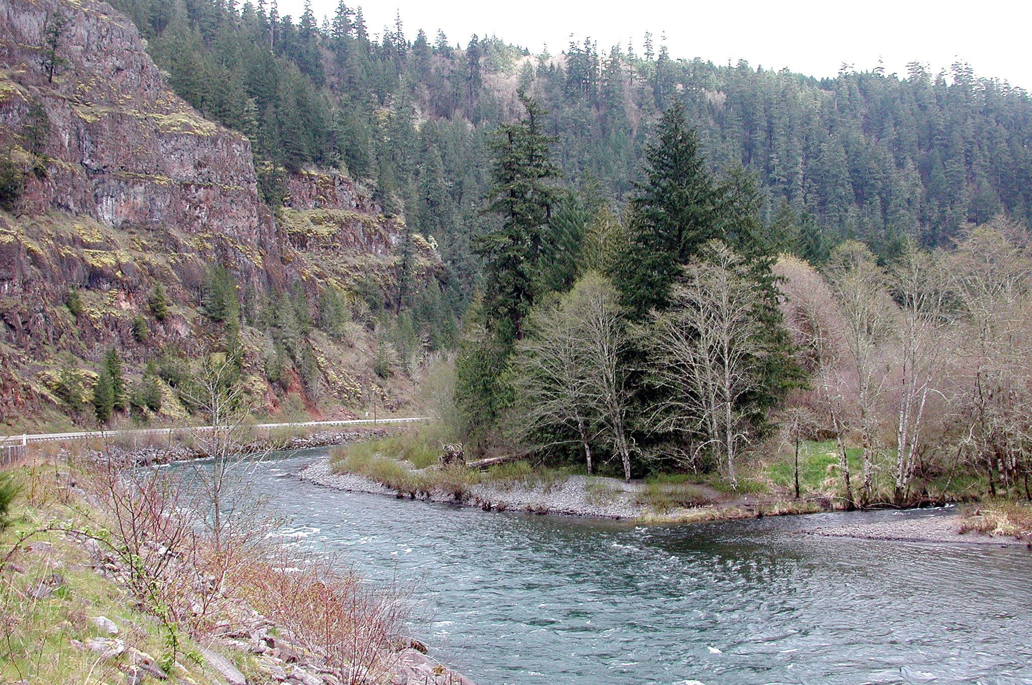 The South Fork of the Clackamas River (right) enters the Clackamas River at Big Cliff (left) in northwestern Oregon in the United States.